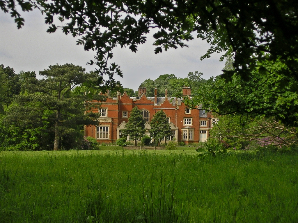 The south face of Abney Hall looking north.